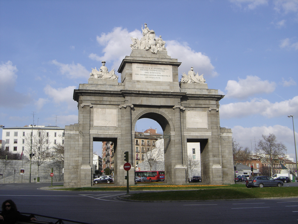 South façade of the Puerta de Toledo (Madrid, Spain, 1813–1827). Architect: Antonio López Aguado (1764–1831).